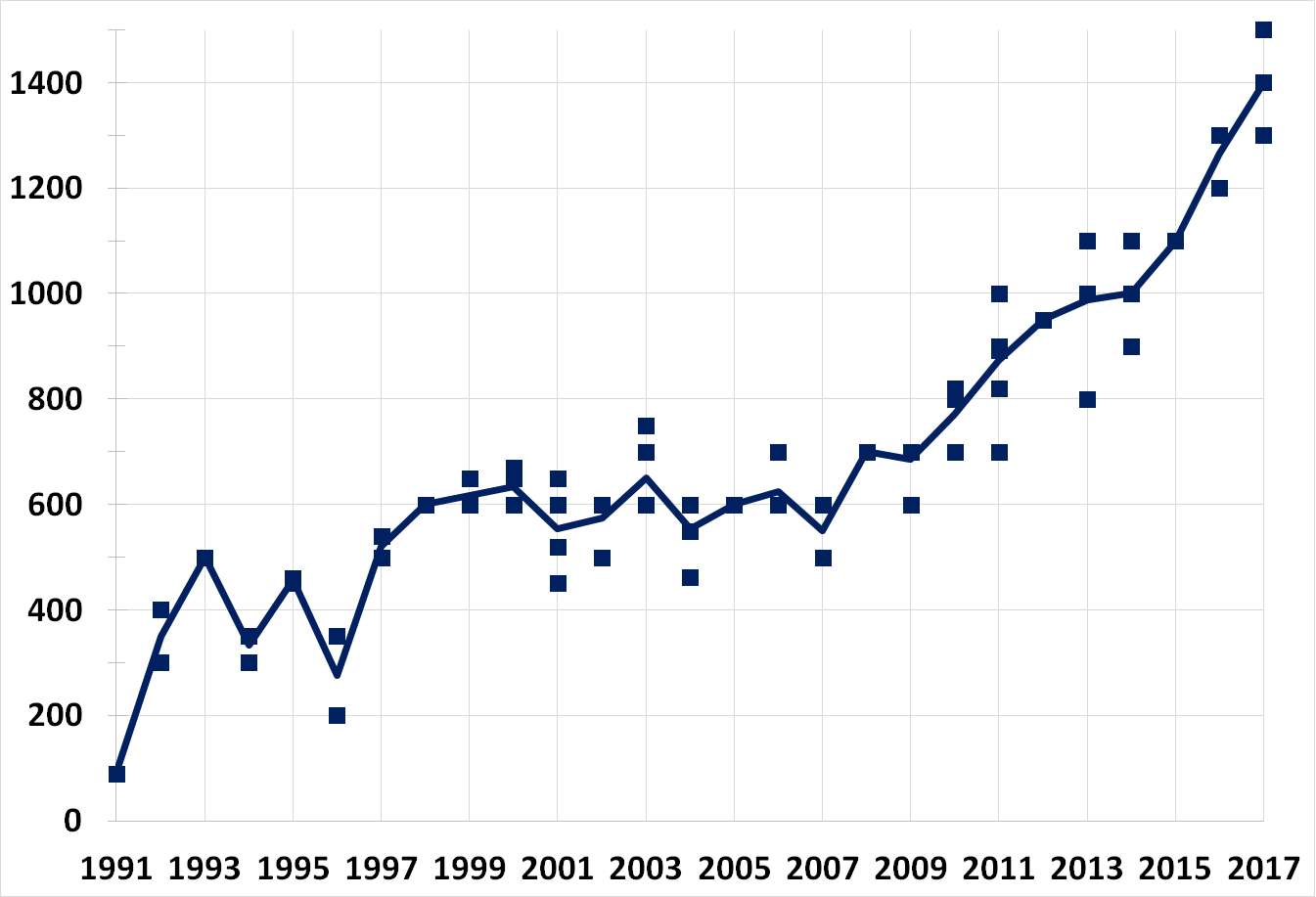 Population estimates for Orania. Demographic estimates for the town over the years have been erratic, and it is not known if this reflects the actual fluctuation of the number of residents, or simply the low accuracy of the figures. This chart was created by plotting estimates gathered from over 80 sources (full list below).